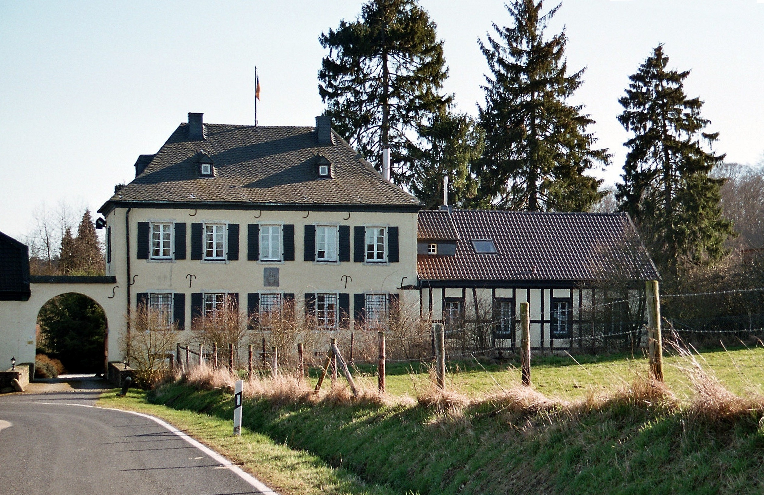 Berg (bei Ahrweiler), Vischel palace